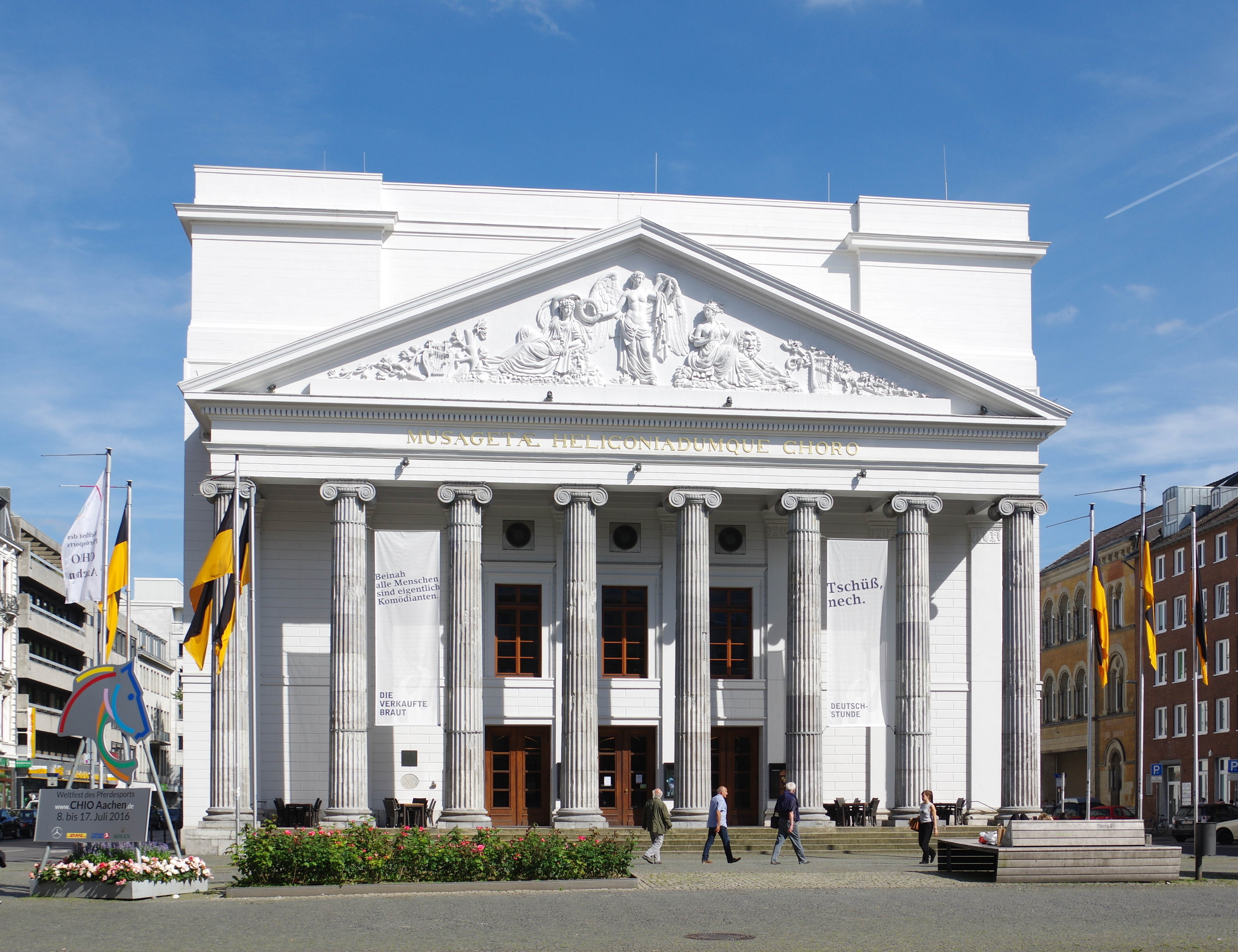 Aachen, Theater